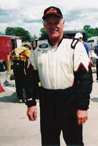 NASCAR driver Brad Teague at The Milwaukee Mile in 2004.